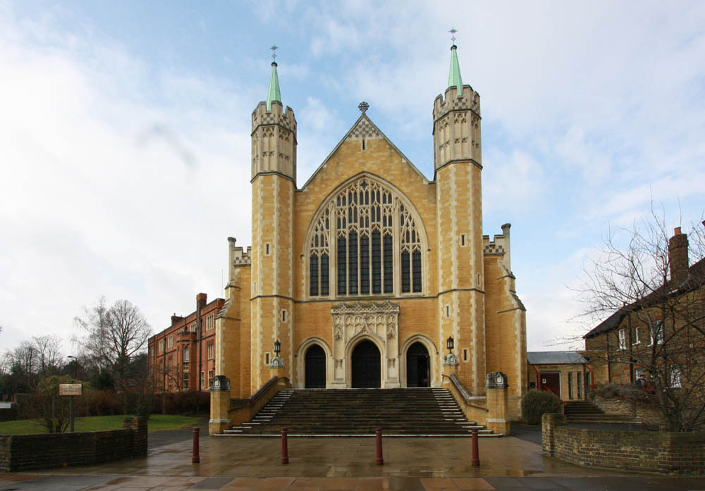 St Benedict's Ealing Abbey, Charlbury Grove, London W5